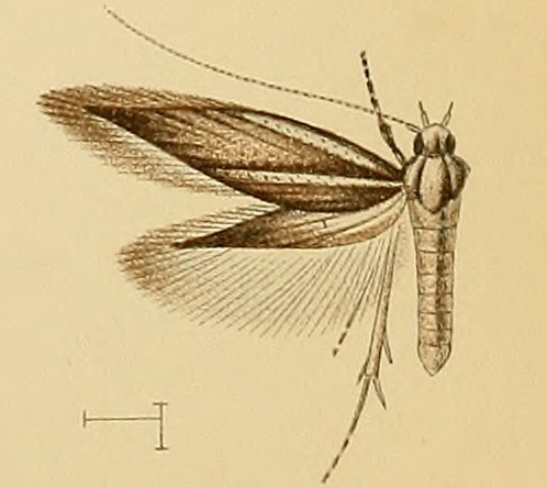 Micromoths from Madeira